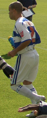 Marcus Bignot. Image cropped from original at flickr.